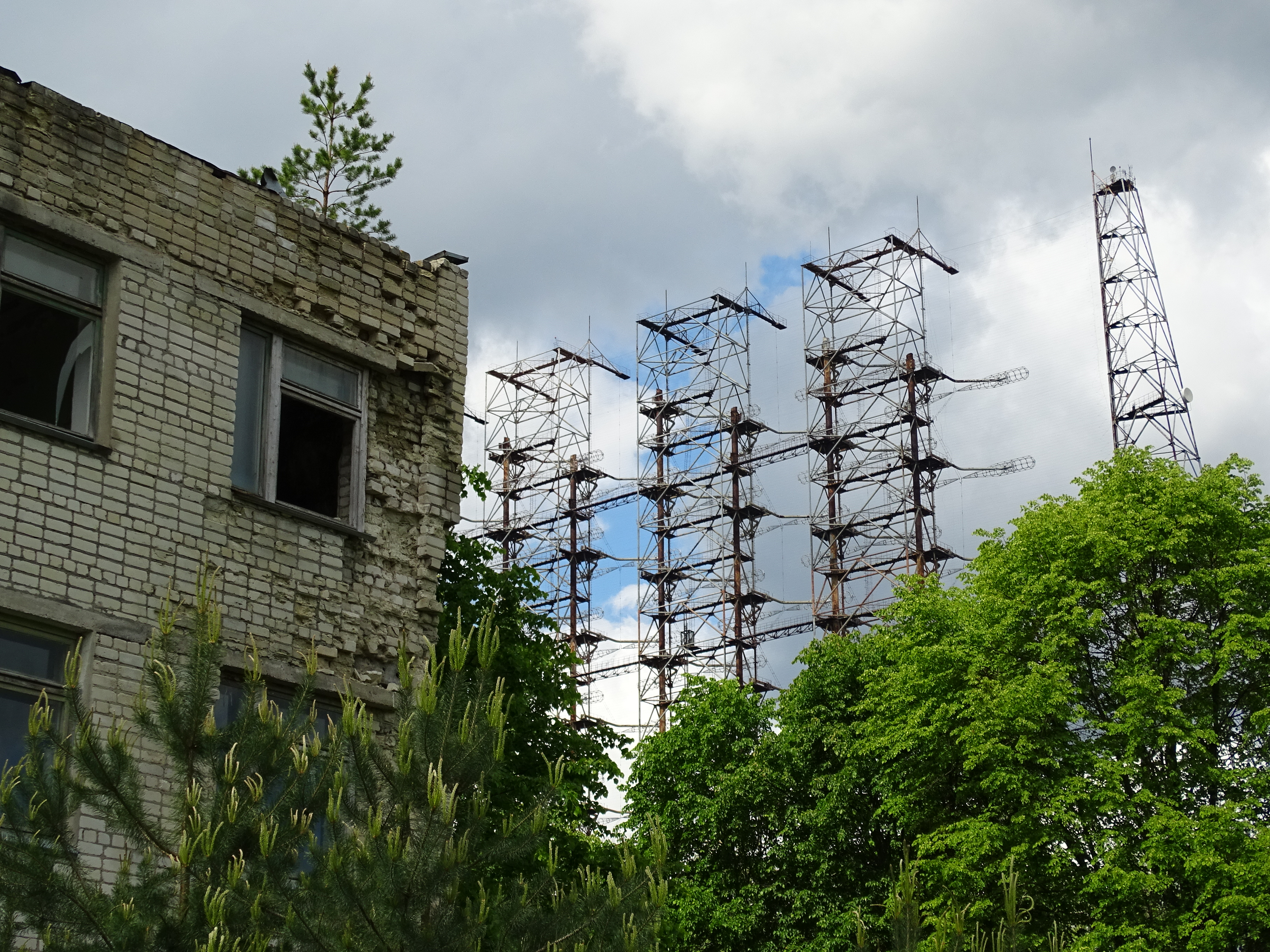 Abandoned Soviet Over-the-Horizon Radar Array - Chernobyl Exclusion Zone - Northern Ukraine - 01